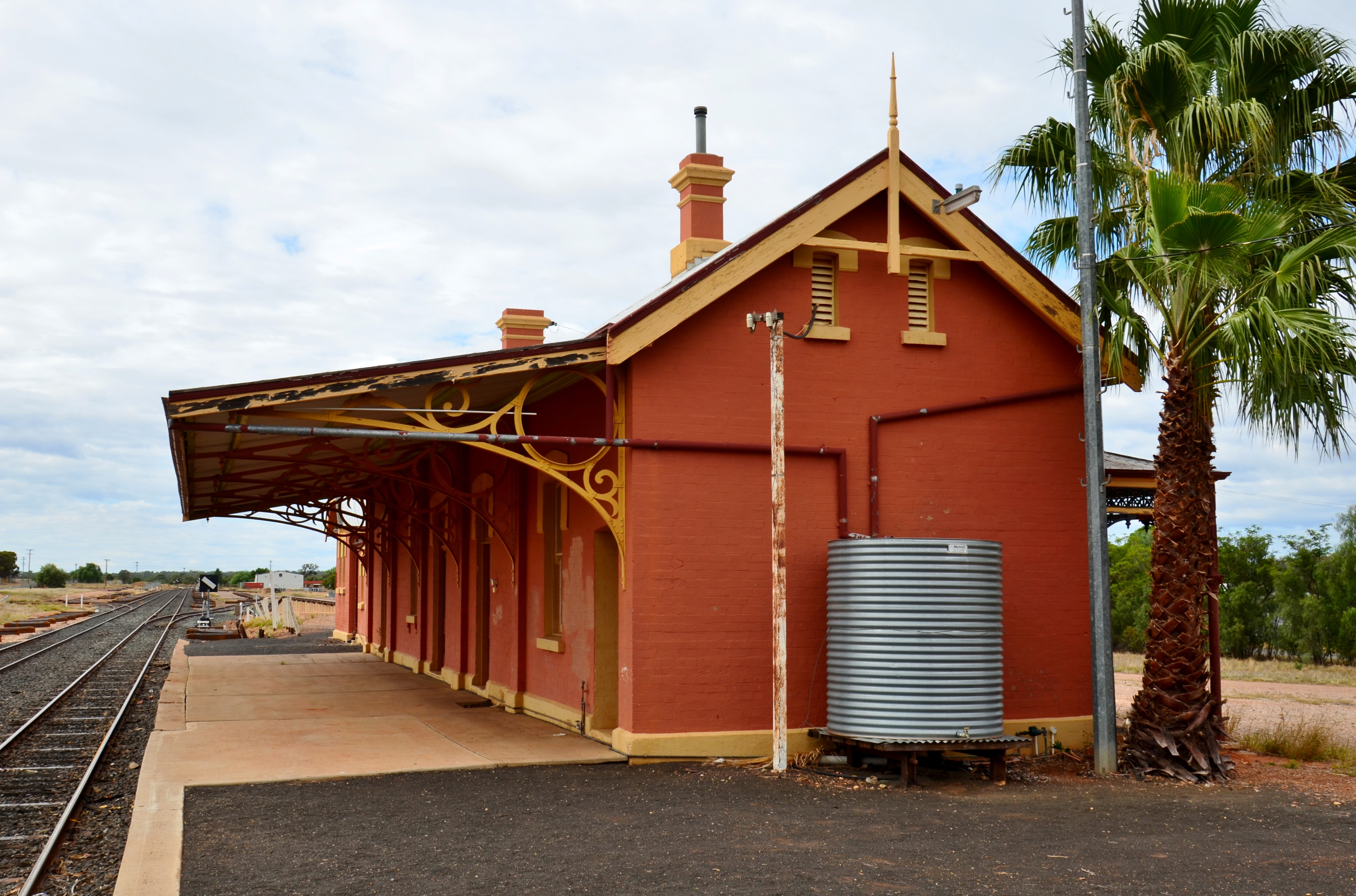 View of the station building at the Cobar railway station, Cobar, New South Wales